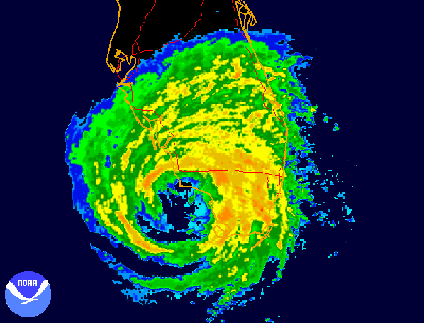 This is a radar image of Hurricane Wilma, 2005, from NWS Miami NEXRAD radar and was made using JAVA NEXRAD tool.